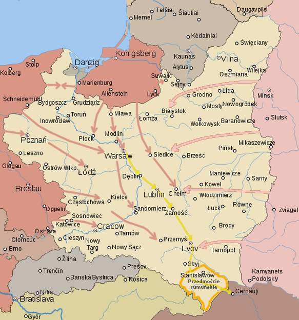 Orange: the "Romanian bridgehead" (1939; background [2])